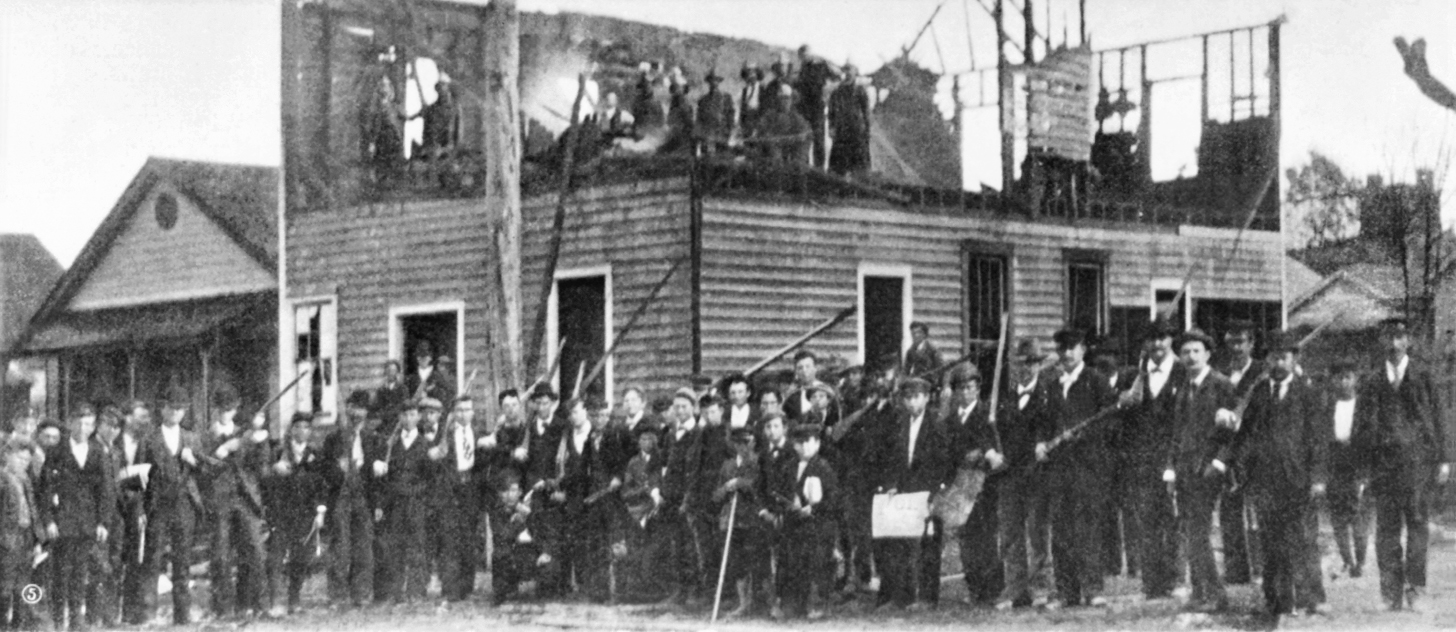 Wilmington, N.C. race riot, 1898: Armed rioters in front of the burned-down "Record" press building.